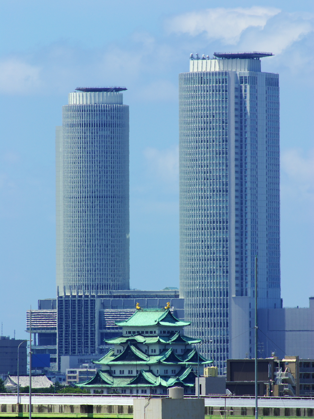 Nagoya Station Building (JR Central Towers) and Tenshu of Nagoya Castle.